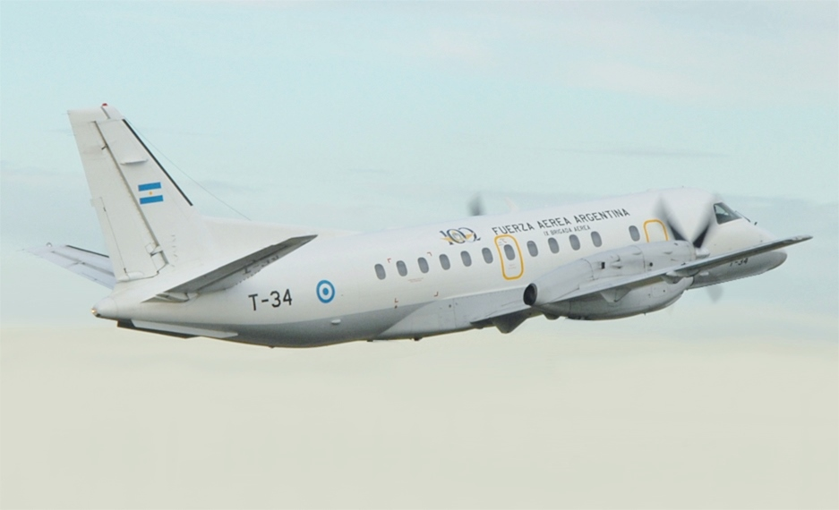 Argentina Air Force SAAB 340